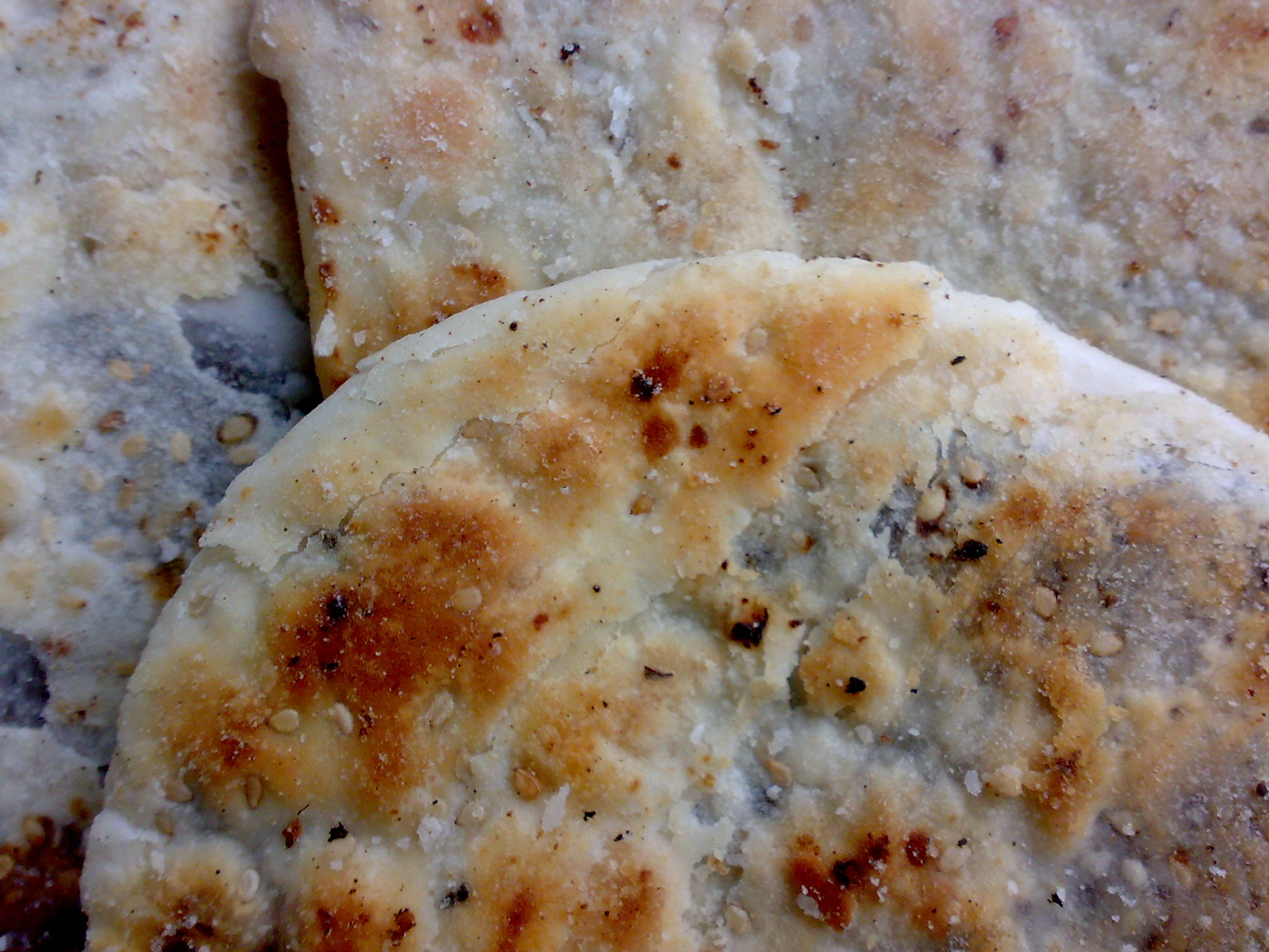 Freshly-baked piaya.